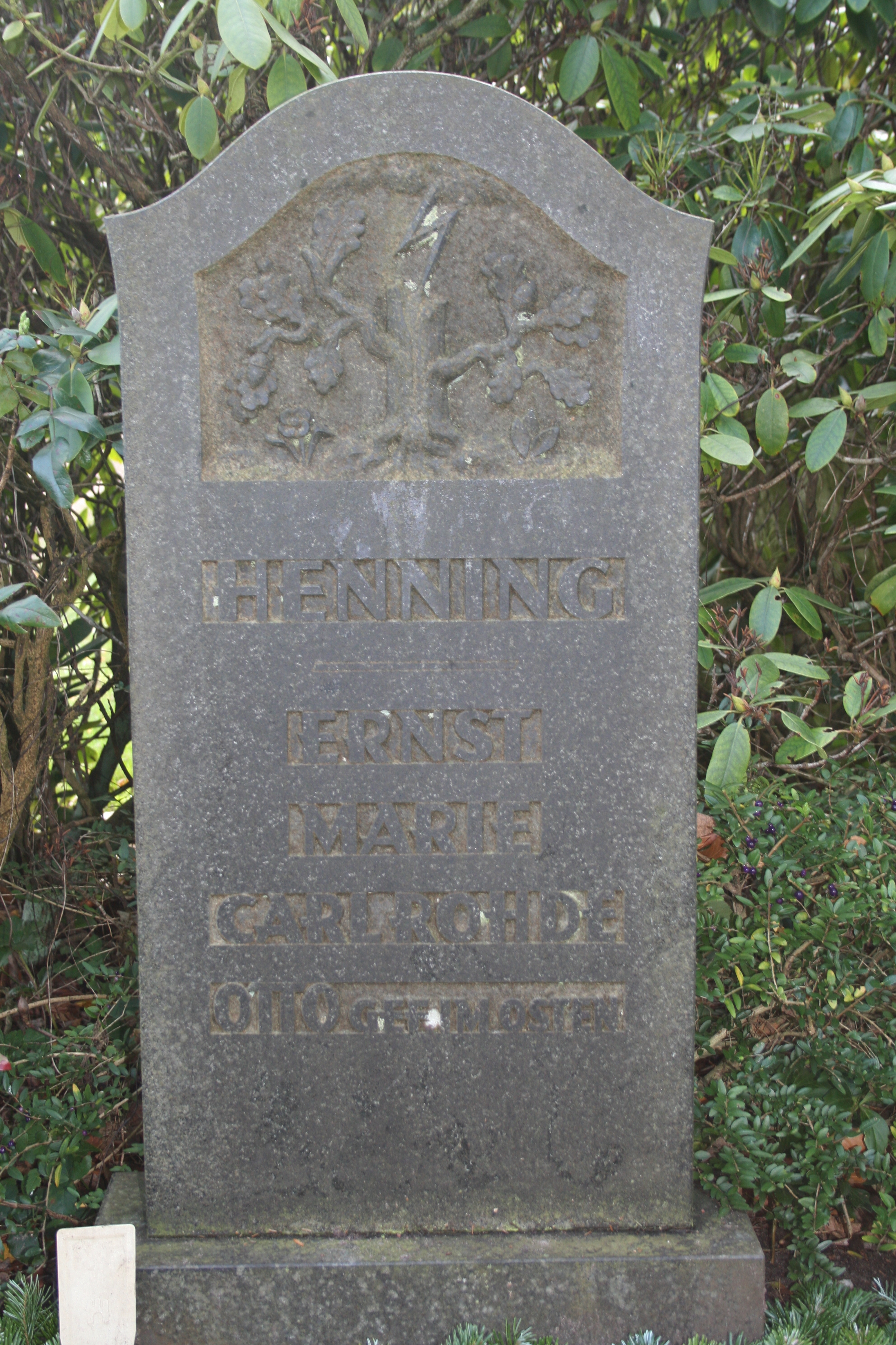 The tomb of Ernst and Marie Henning and Carl Rohde on the cemetery Bergedorf